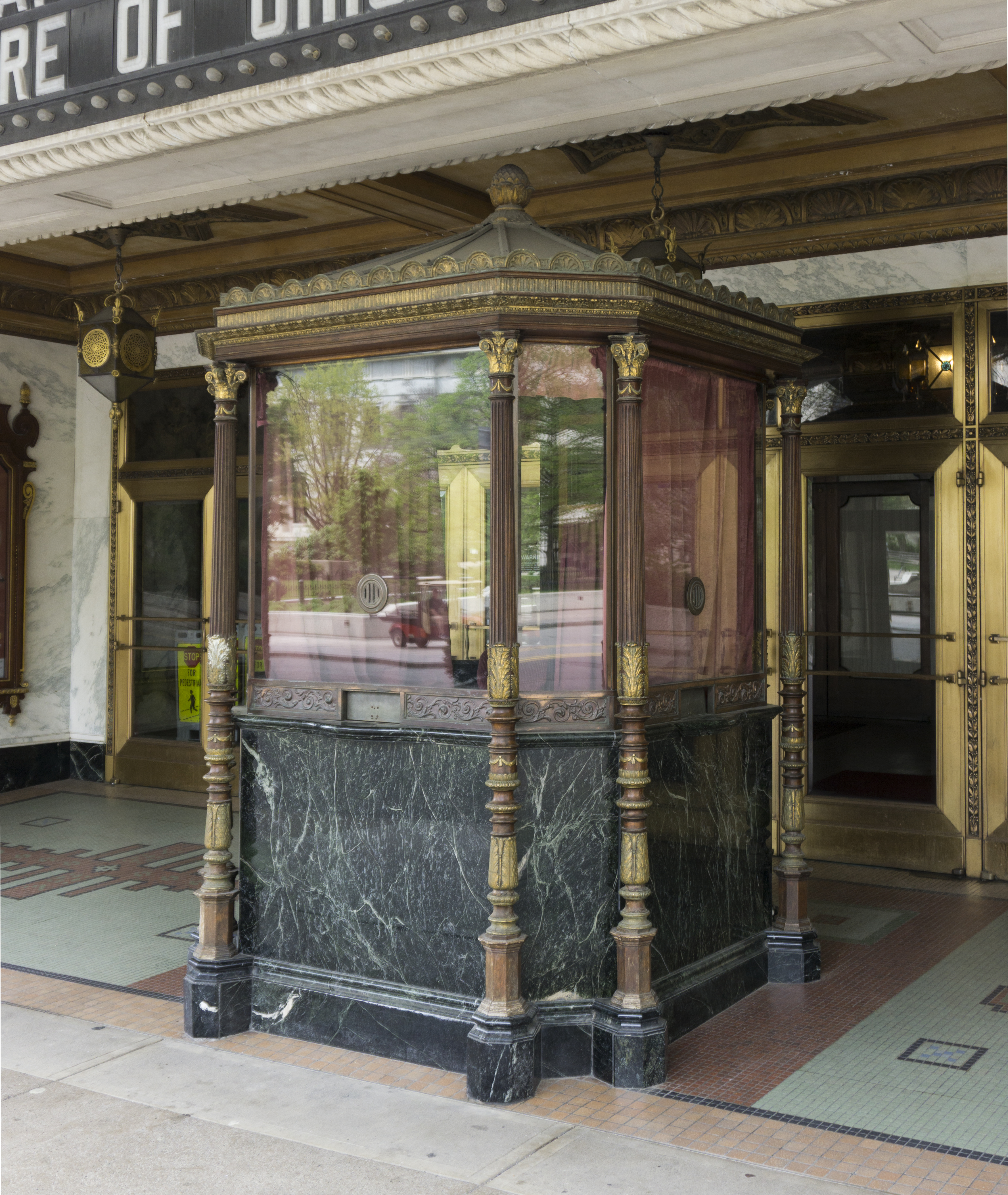 I took this in Columbus on May 5.